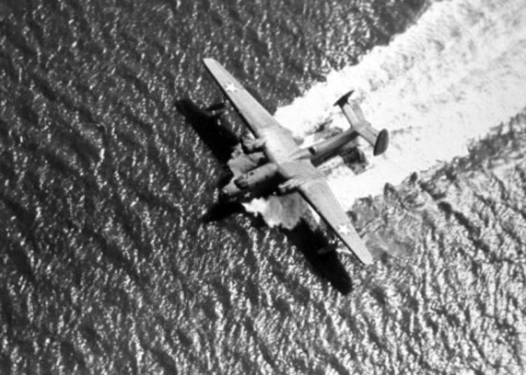 A U.S. Navy Martin PBM-3 Mariner patrol bomber on the water, circa 1942.